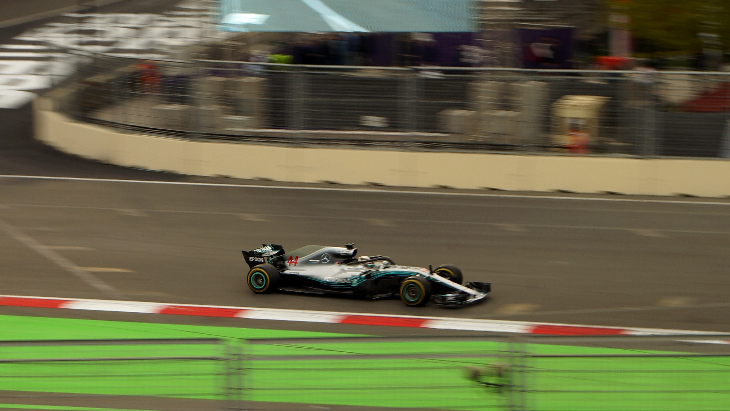 Lewis Hamilton during Azerbaijan GP in 2018